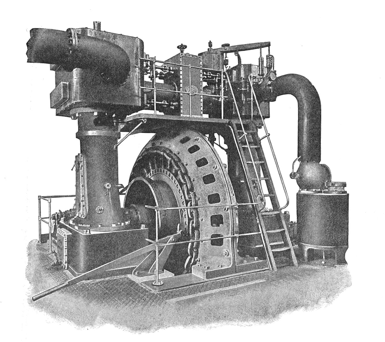 Ferranti two-phase generator set (Rankin Kennedy, Electrical Installations, Vol III, 1903).jpg